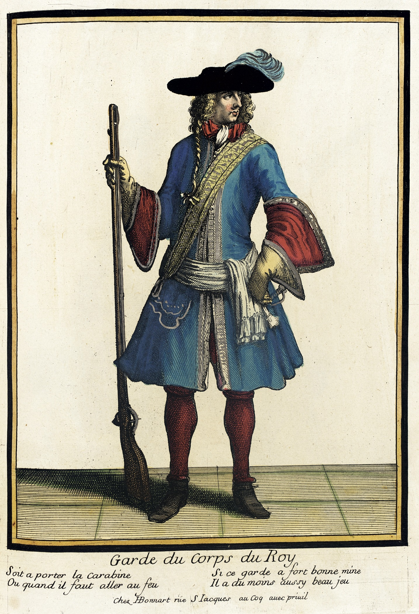 France, Paris, after 1685, bound 1703-1704 Prints Hand-colored engraving on paper Sheet: 14 3/8 x 9 3/8 in. (36.51 x 23.81 cm); Composition: 10 5/8 x 7 5/8 in. (26.99 x 19.37 cm) Purchased with funds provided by The Eli and Edythe L. Broad Foundation, Mr. and Mrs. H. Tony Oppenheimer, Mr. and Mrs. Reed Oppenheimer, Hal Oppenheimer, Alice and Nahum Lainer, Mr. and Mrs. Gerald Oppenheimer, Ricki and Marvin Ring, Mr. and Mrs. David Sydorick, the Costume Council Fund, and member of the Costume Council (M.2002.57.103) Costume and Textiles